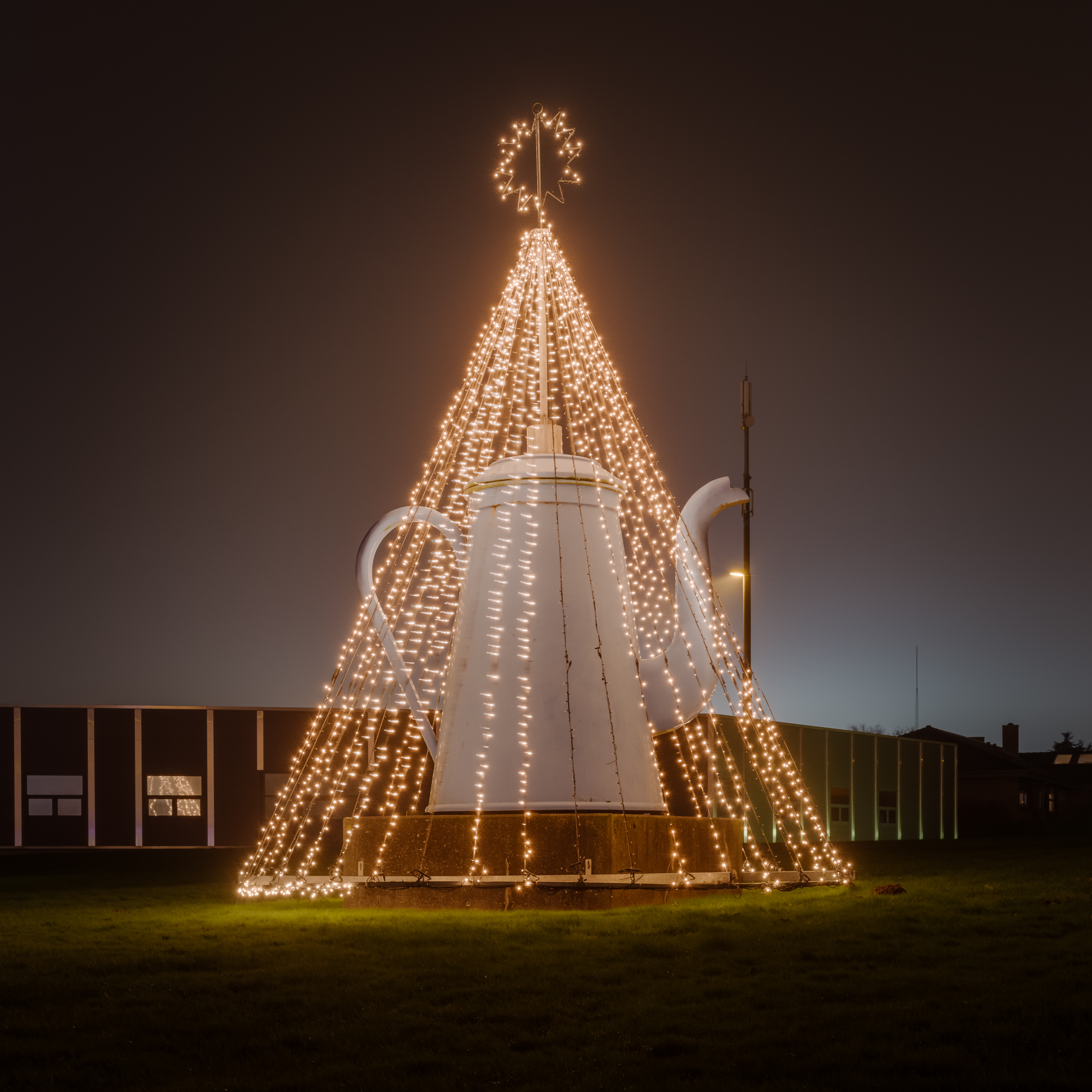 The coffe pot in style "Madam Blå" on display with christmas lights outside the headquaters of Peter Larsens Kaffe, a coffee roaster and supplier in Viborg, Denmark.